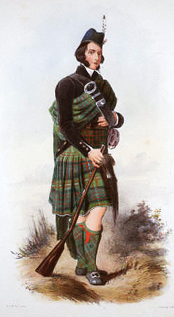 "Macdonell of Glengarry". A plate illustrated by R. R. McIan, from James Logan's The Clans of the Scottish Highlands, published in 1845.